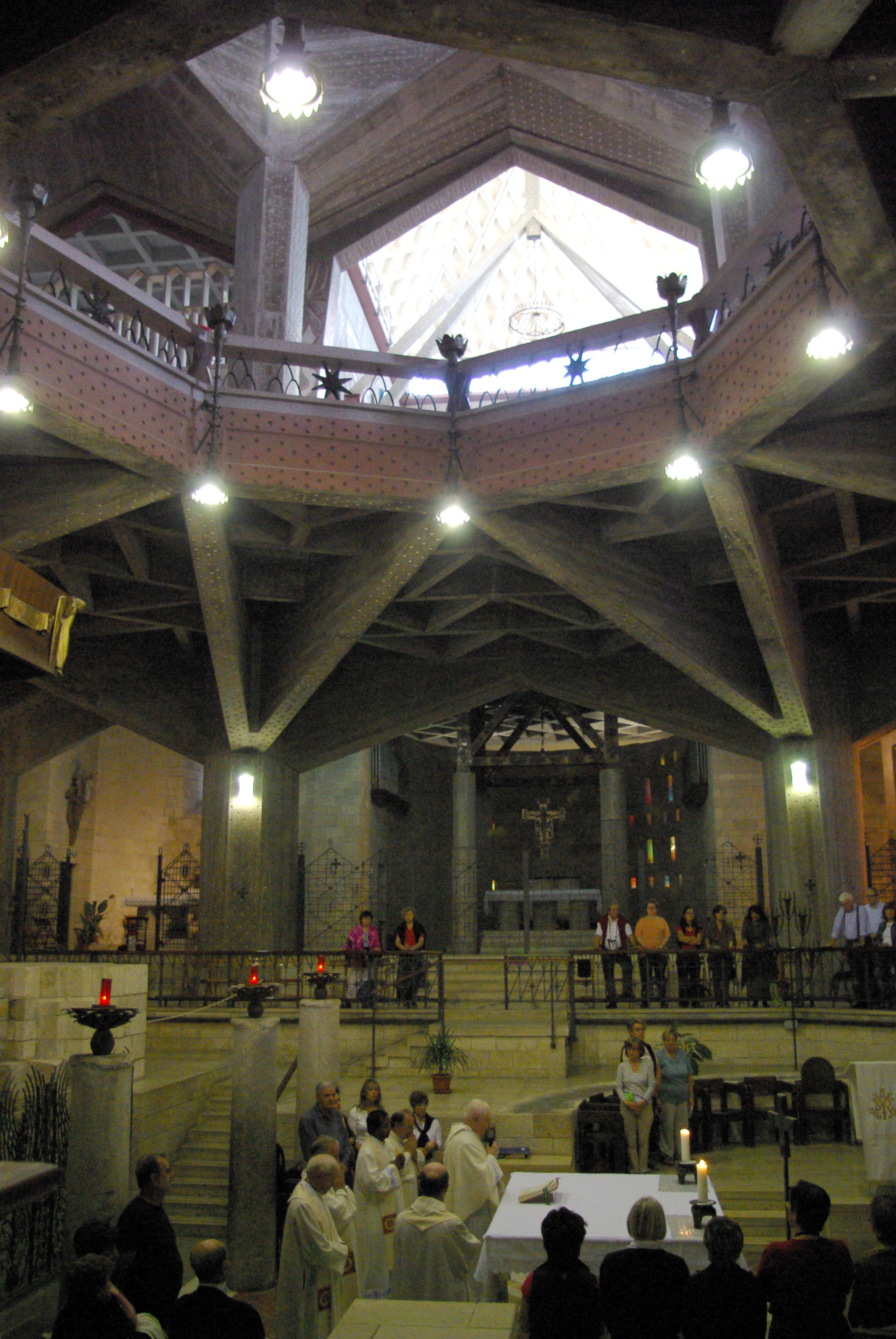 Church of the Annunciation, Nazareth, Israel